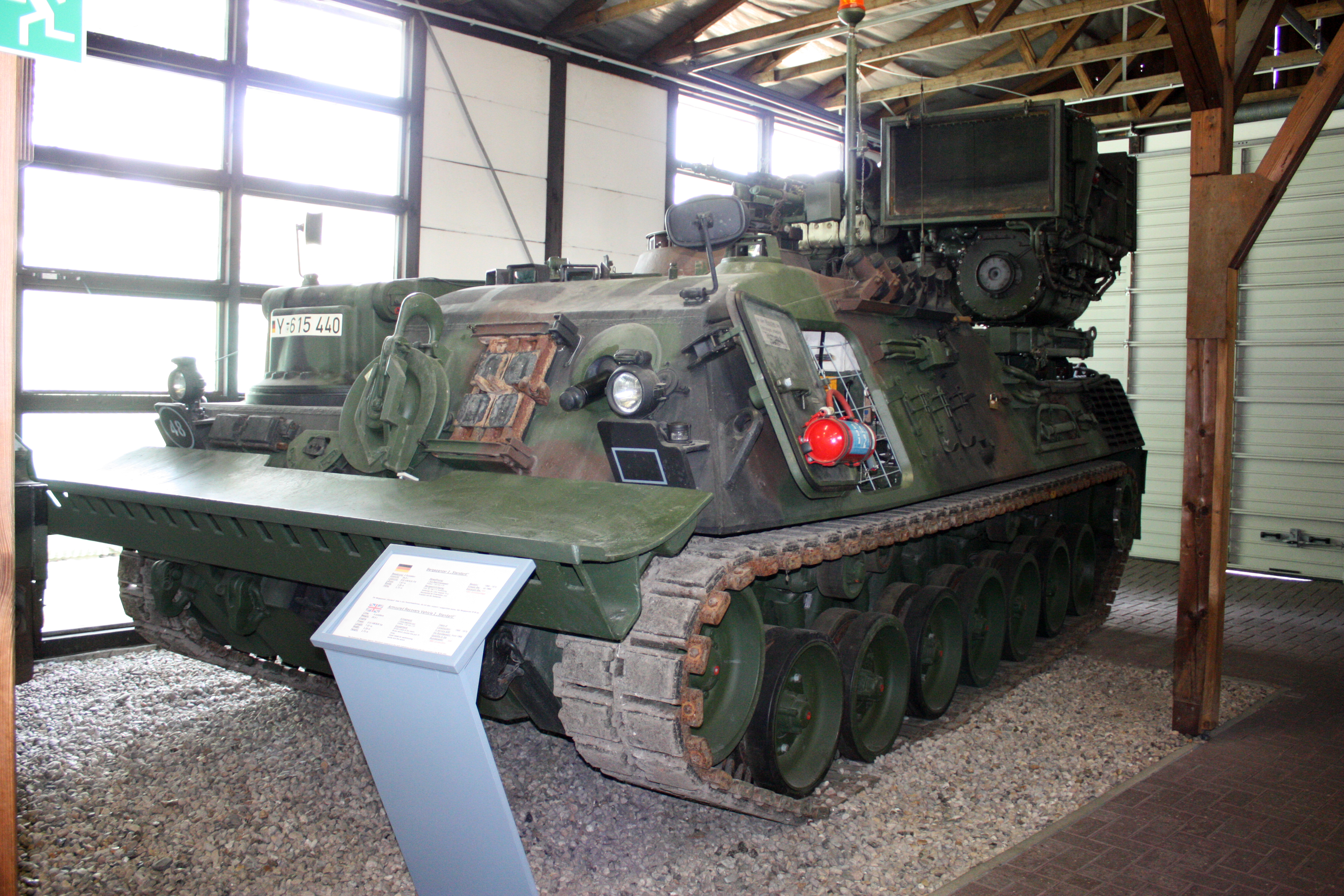 German Tank Museum